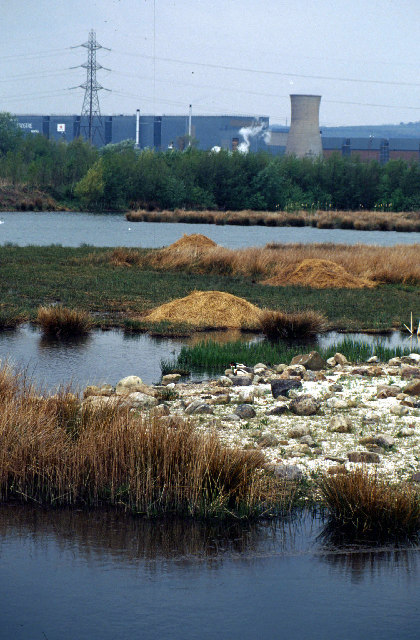 Millennium Wetlands & Trostre Works. The newly-created waterfowl sanctuary contrasts with South Wales' traditional industry.